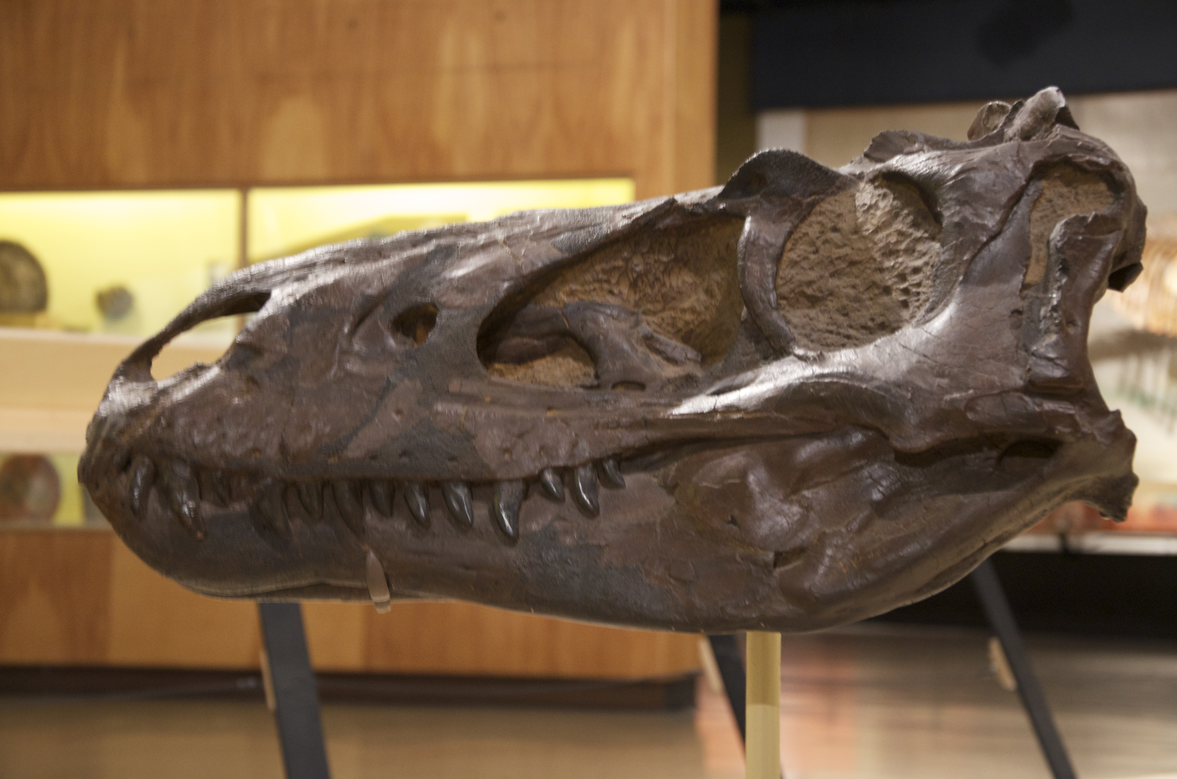 Skull holotype cast of Nanotyrannus at the Cleveland Museum of Natural History, Cleveland, OH